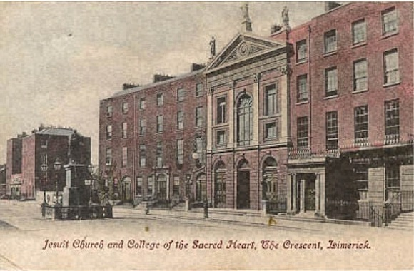 Limerick city Archives policy: 'The digitised collections are made freely available to the public to promote research into the history of Limerick City via a virtual archive. City Archives' quoted at The digitised collections are made freely available to the public to promote research into the history of Limerick City via a virtual archive. City Archives